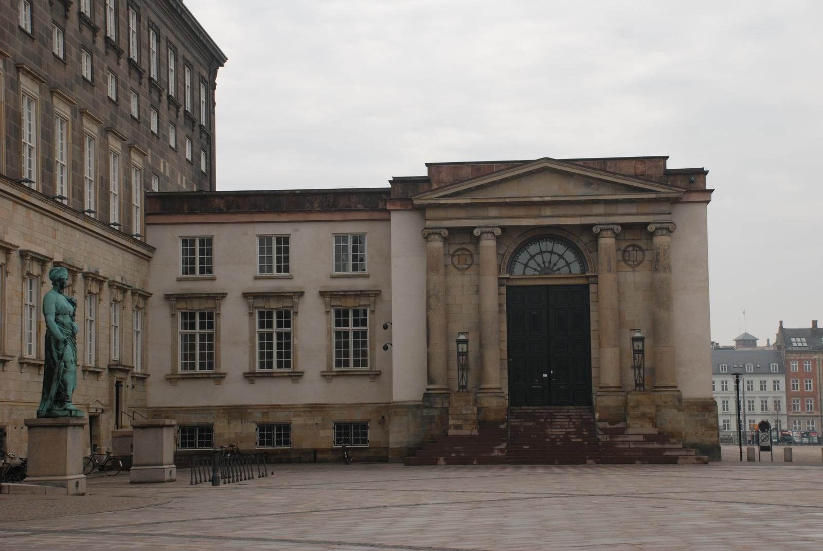 The Supreme Court of Denmark at Slotsholmen, Copenhagen, Denmark